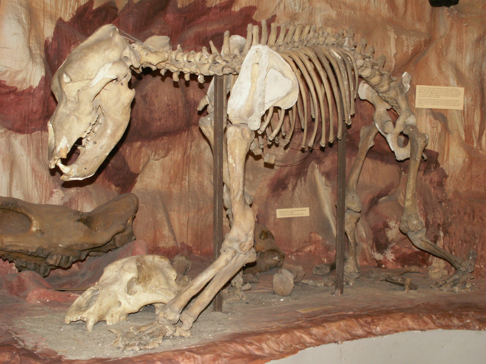 Cave Bear (Ursus spelaeus) skeleton, Hungarian Natural History Museum